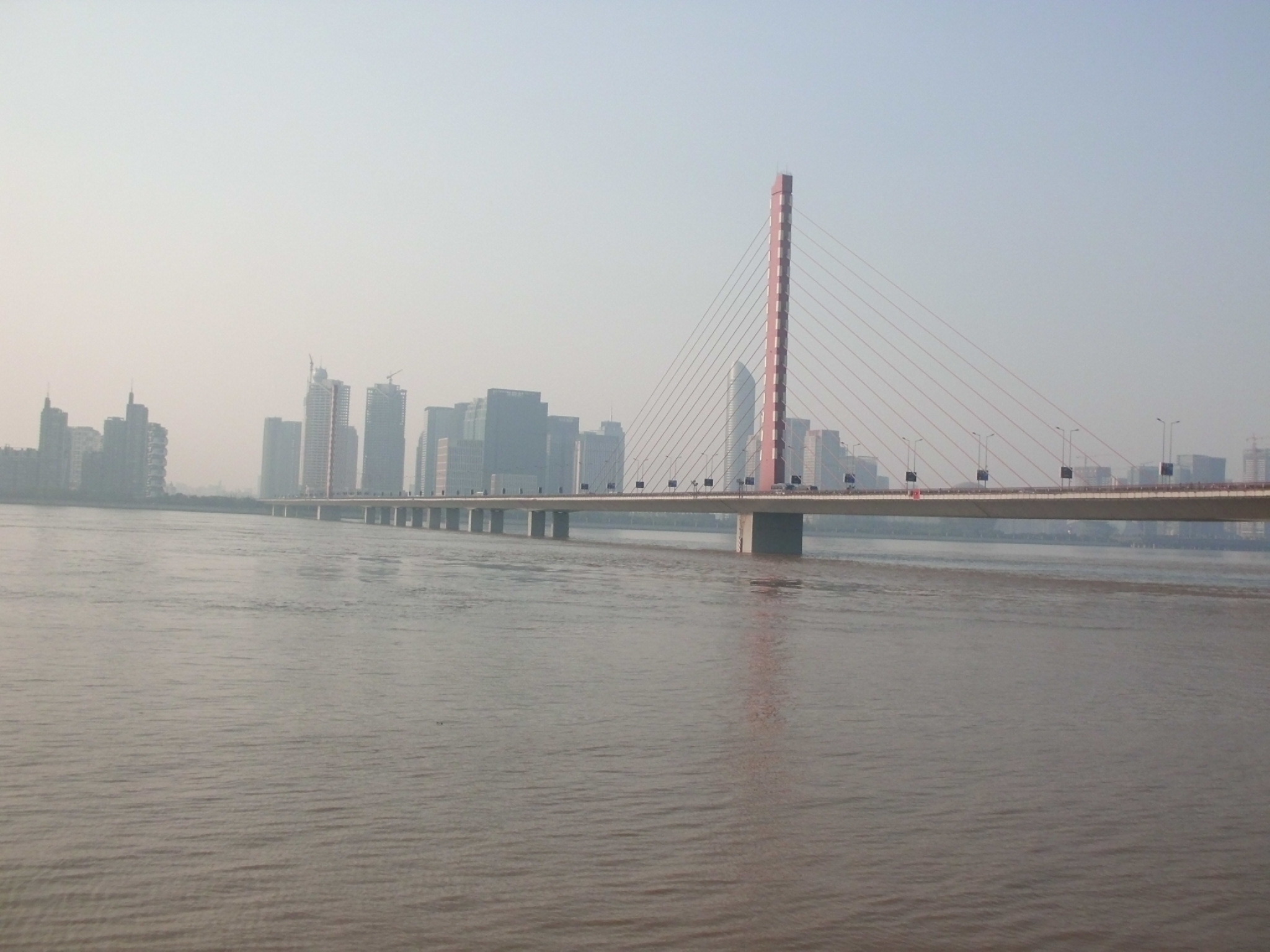 Third Qiantang River Bridge,from southwest